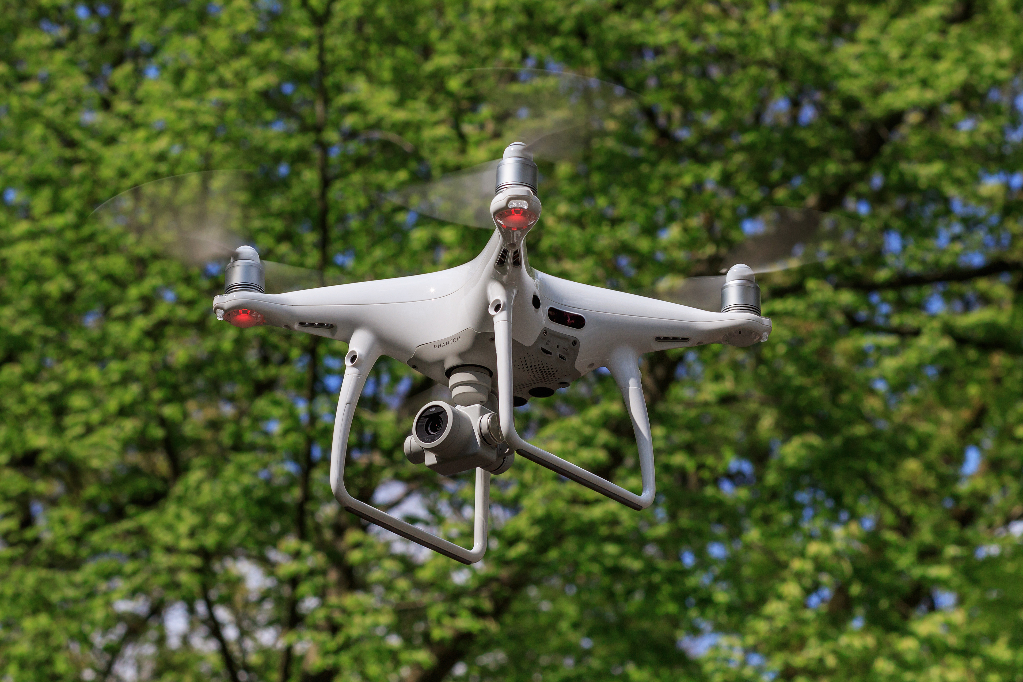 DJI Phantom 4 Pro/Pro+ quadcopter with camera